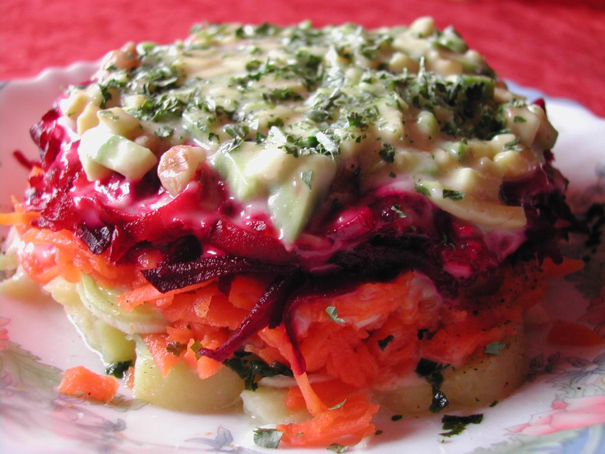 A layer salad with wakame, root vegetables, avocados and mayonnaise (vegan version). Ein Schichtsalat mit Seealgen (Wakame), Wurzelgemüse, Avokado und Mayonnaise (rein pflanzlich) Both, photo and salad are self-made Author: myself (User:Alex Ex) Date: 2006-03-01 Cuisine: russian/jewish. This salad, titled by myself "Sea under a coat", is a vegan version of a salad "Селёдка под шубой"/"Selyodka pod shooboy" (russian, meaning: 'Herring under a fur coat'), which is popular in Russia.